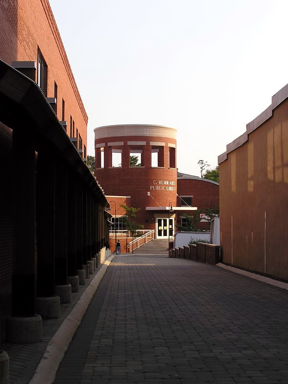 C. Burr Artz Public Library in Frederick, Maryland.